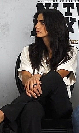 Bárbara de Regil in 2018